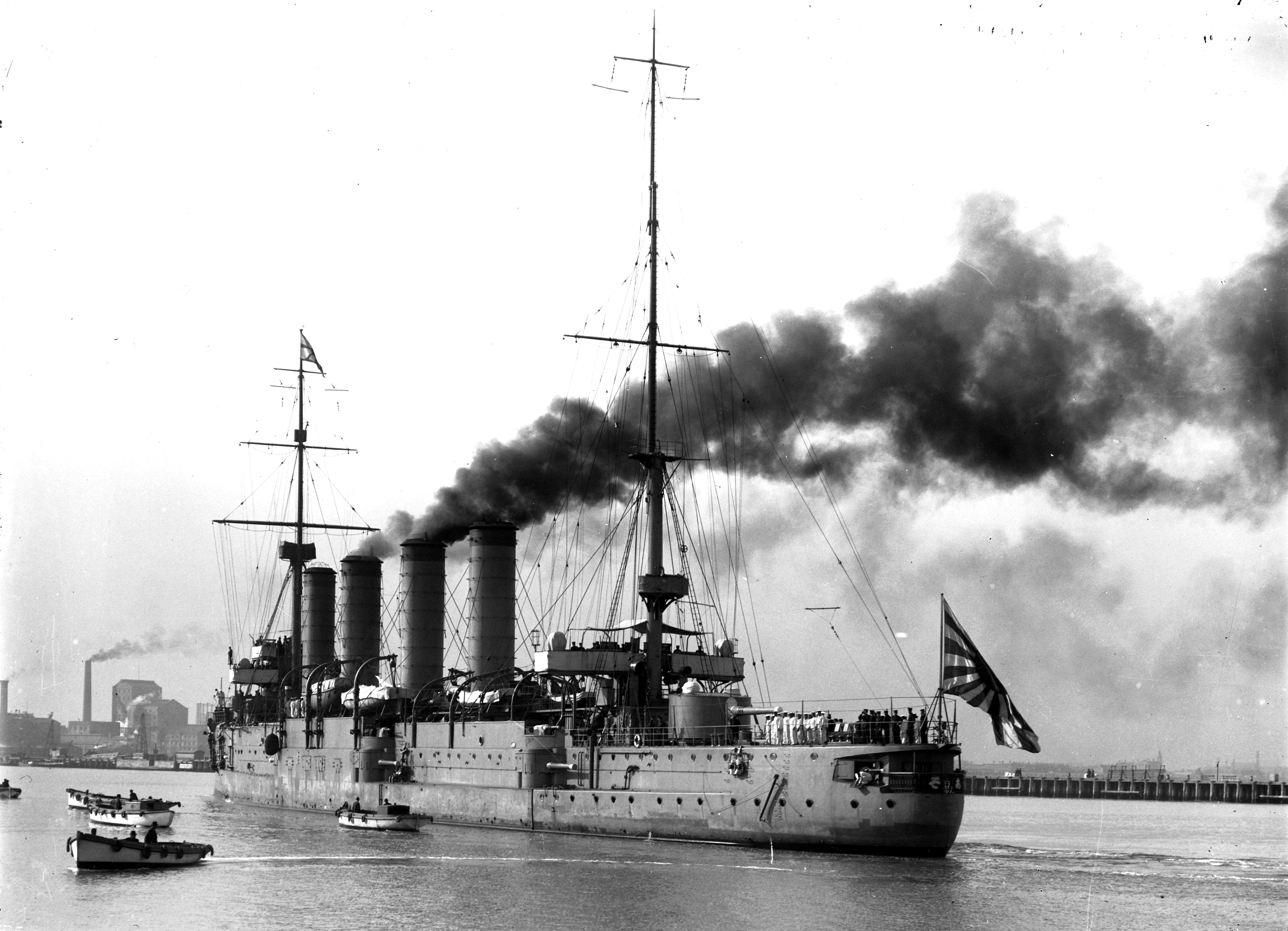 The Imperial Japanese first rank crusier «Aso» during visit in Australia, June 1915.